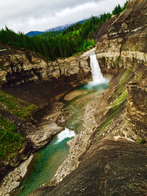 Ram Falls seen from the observation deck This photo was taken in a protected area in Canada, Wikidata item Ram Falls Provincial Park (Q7288463)